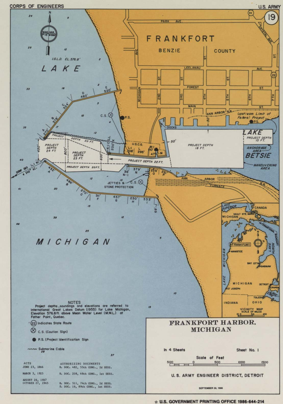 Frankfort MI harbor map NRHP#97000973